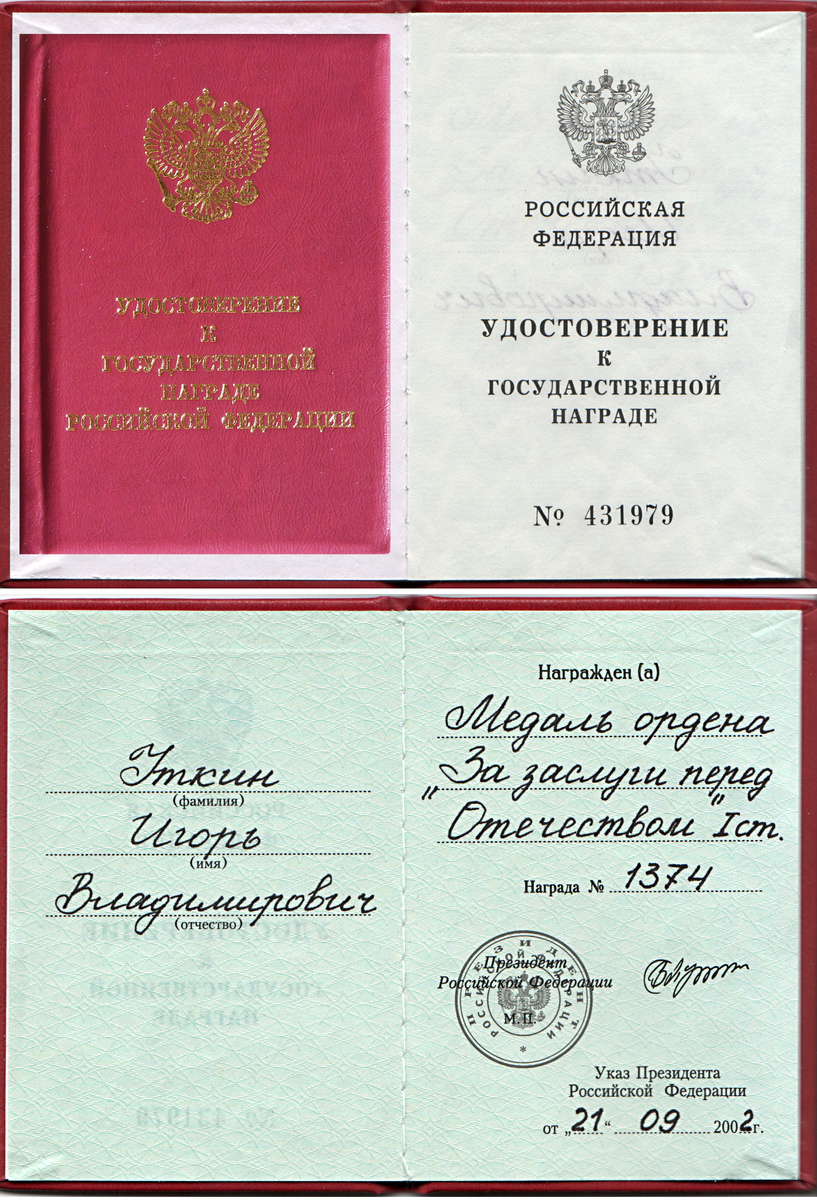 The medal of Order "For Merit" I degree which Photographer Igor Utkin awarded in 2002.